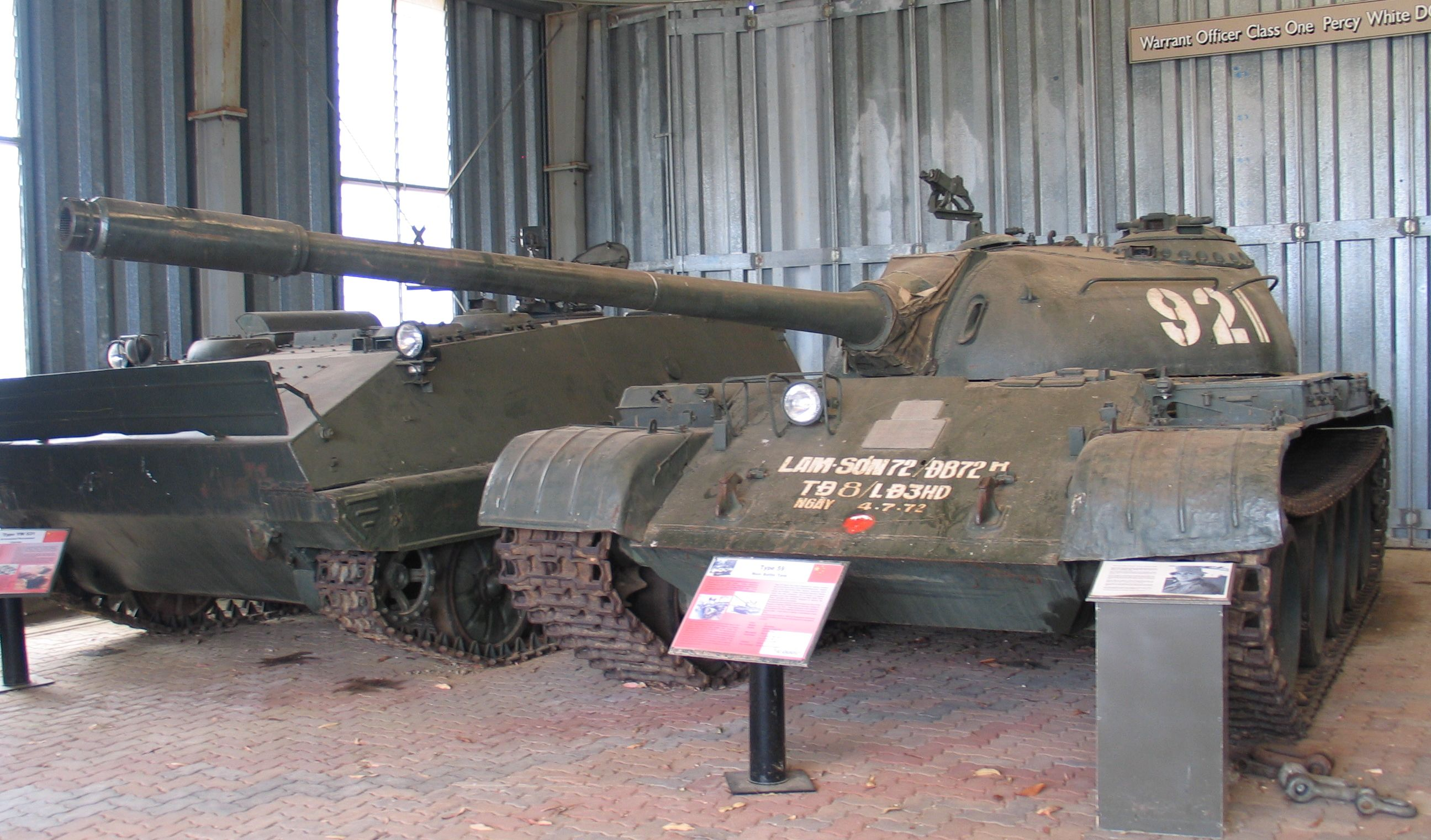 Type 59 tank in Royal Australian Armoured Corps Tank Museum, Puckapunyal, Australia. This tank was captured by ARVN troops in South Vietnam (Hai Lang, Quang Tri Province) on 4 July 1972.